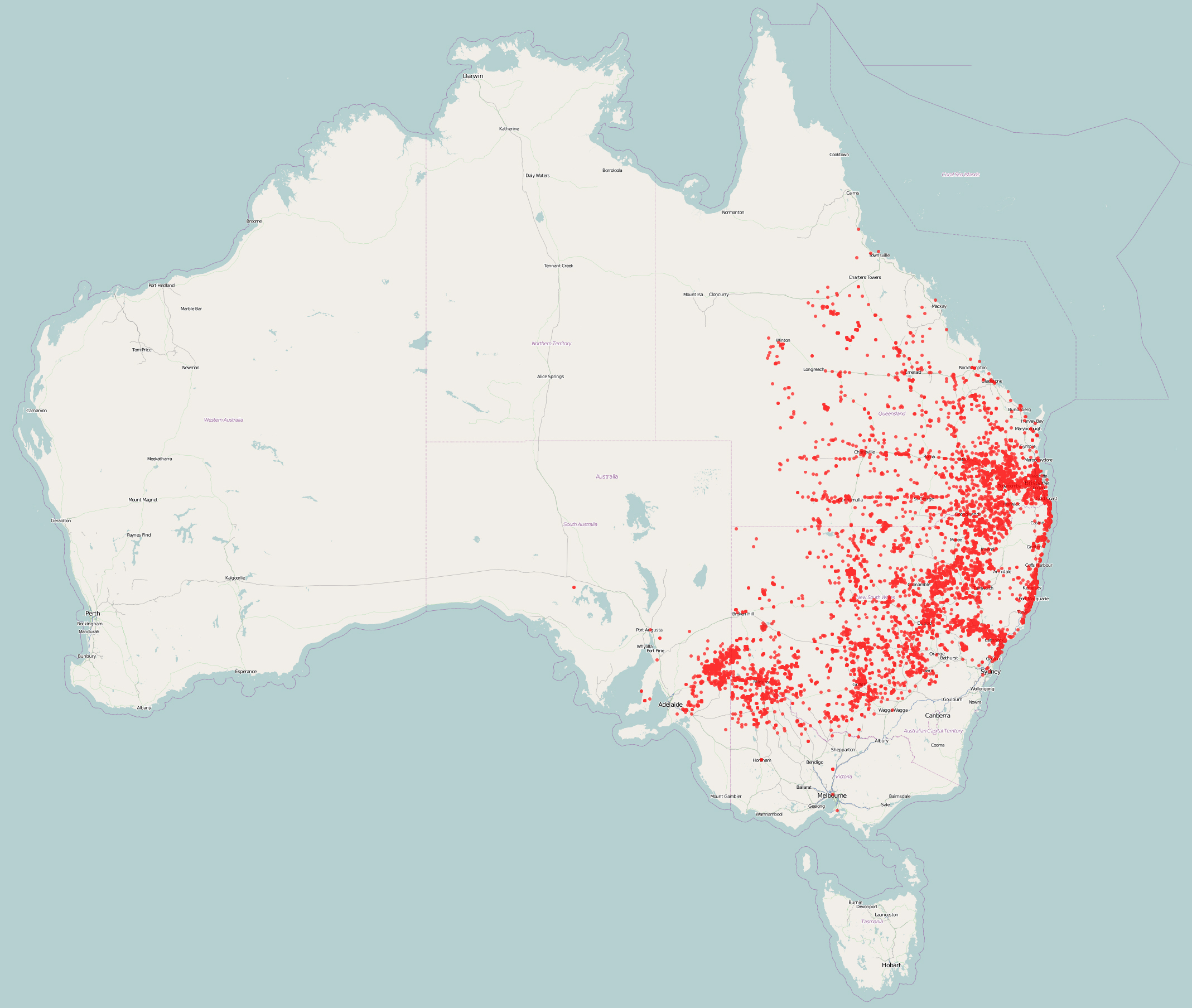 Adapted from the Atlas of Living Australia Data from: Birdata: 12,153 records DECCW Atlas of NSW Wildlife: 3,208 records Eremaea: 830 records Australian Museum provider for OZCAM: 112 records Australian National Wildlife Collection provider for OZCAM: 58 records Museum Victoria provider for OZCAM: 39 records Tasmanian Museum and Art Gallery provider for OZCAM: 3 records QLD Coastal Bird Atlas: 2 records Western Australian Museum provider for OZCAM: 2 records